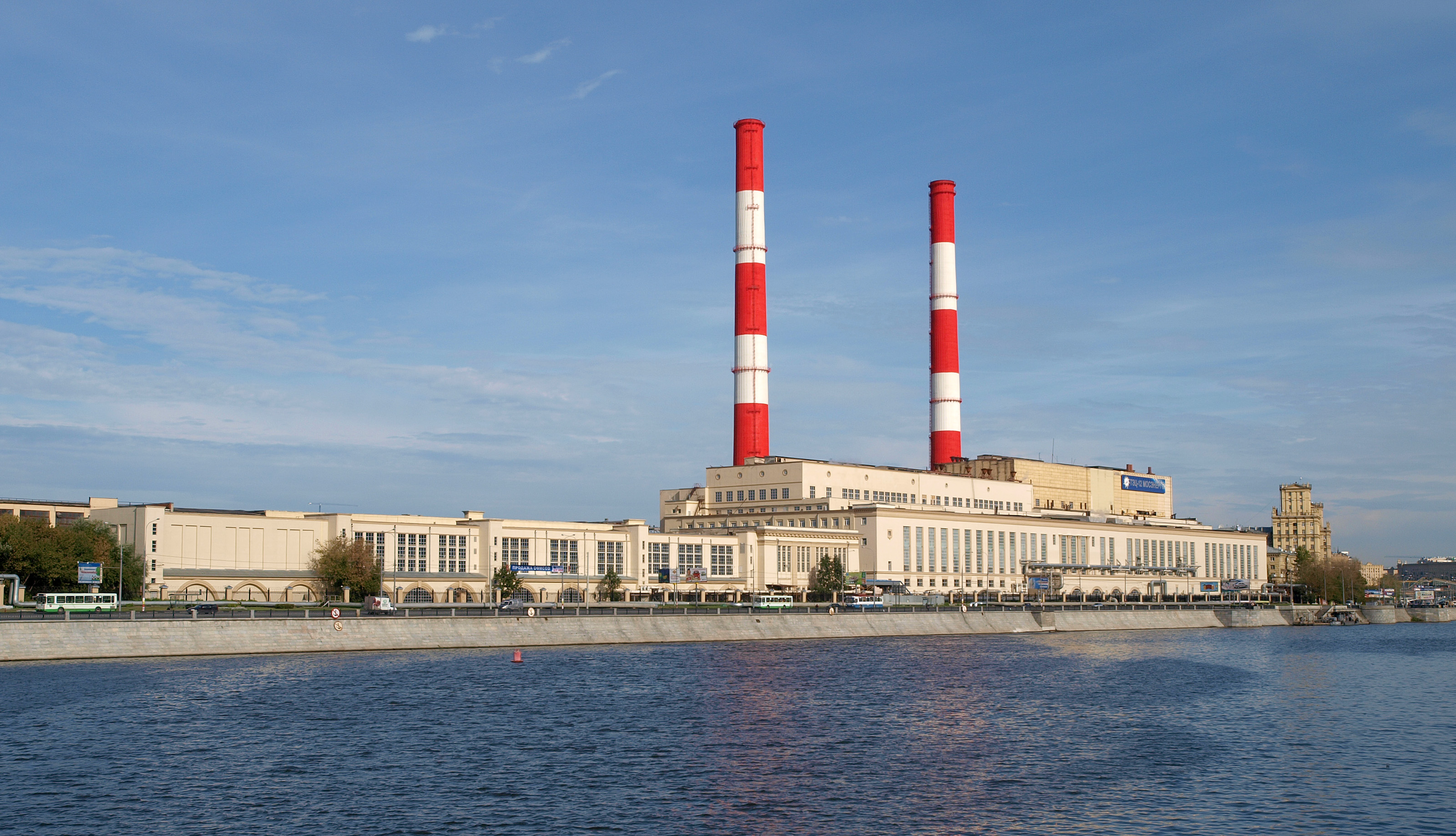 Berezhkovskaya Embankment, Moscow - the 12th city powerplant, commissioned in June 1941.